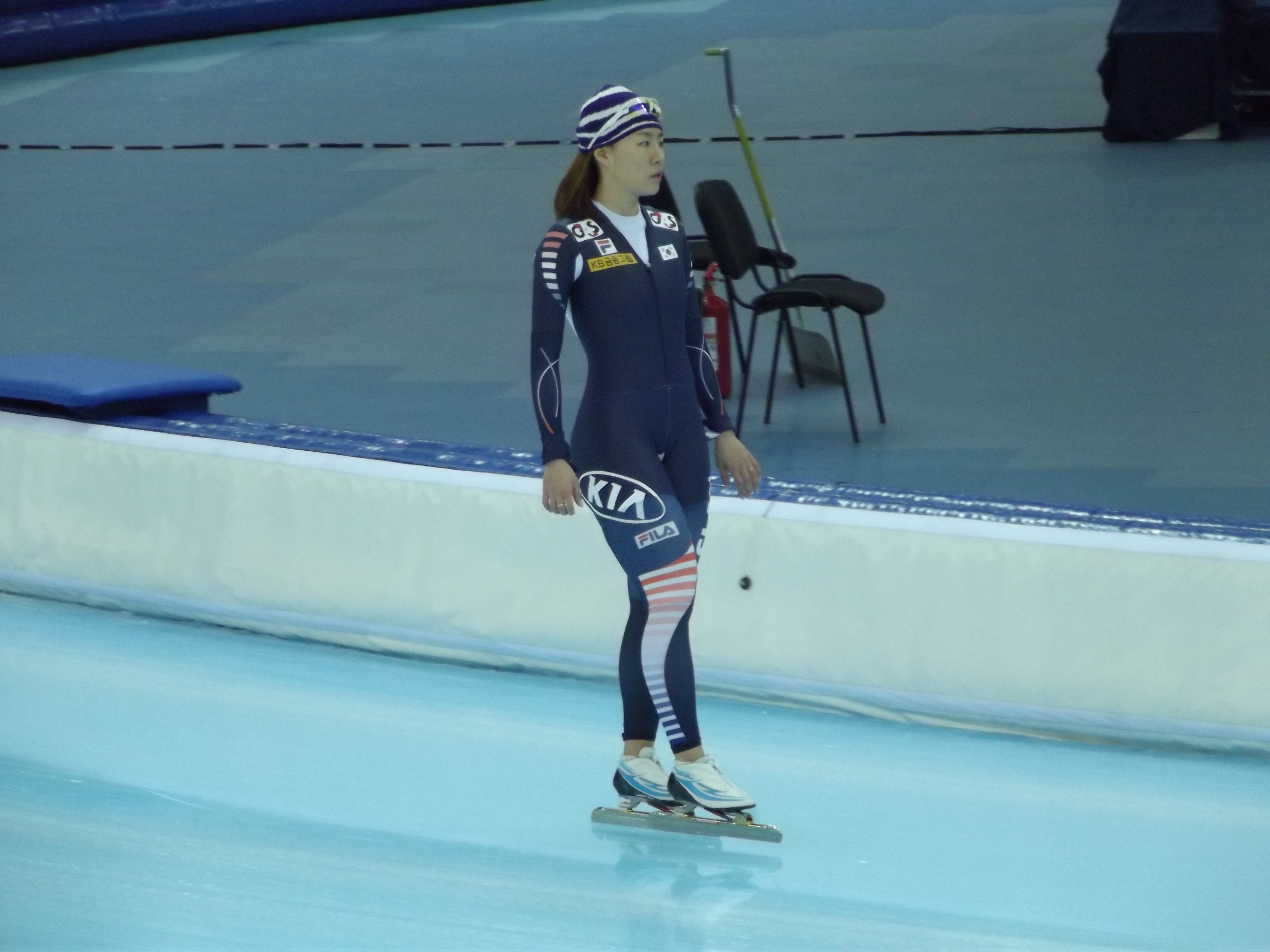 2013 World Single Distance Speed Skating Championships